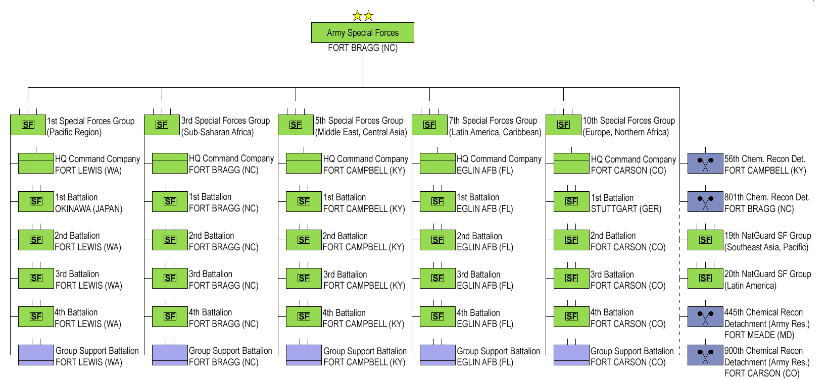 Structure US Army Special Forces Command (Airborne).